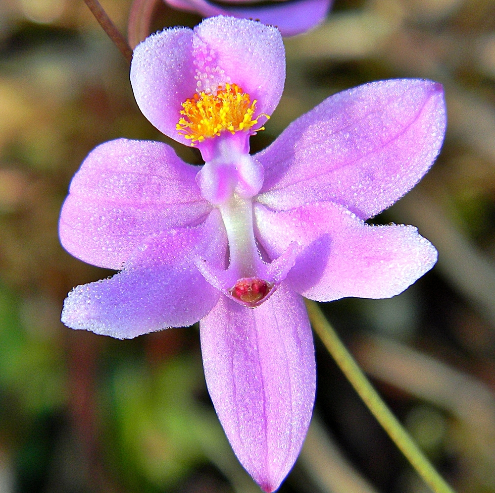 A few Bearded grasspink orchids have already started blooming at Jonathan Dickinson State Park. The early bloomers seen today were all a bit small and not as perfectly shaped as the ones that will cover the flatwoods in a few more weeks. I saw a few Pinguicula lutea (Yellow buttorwort) plants blooming today also. And a very feisty Otter.